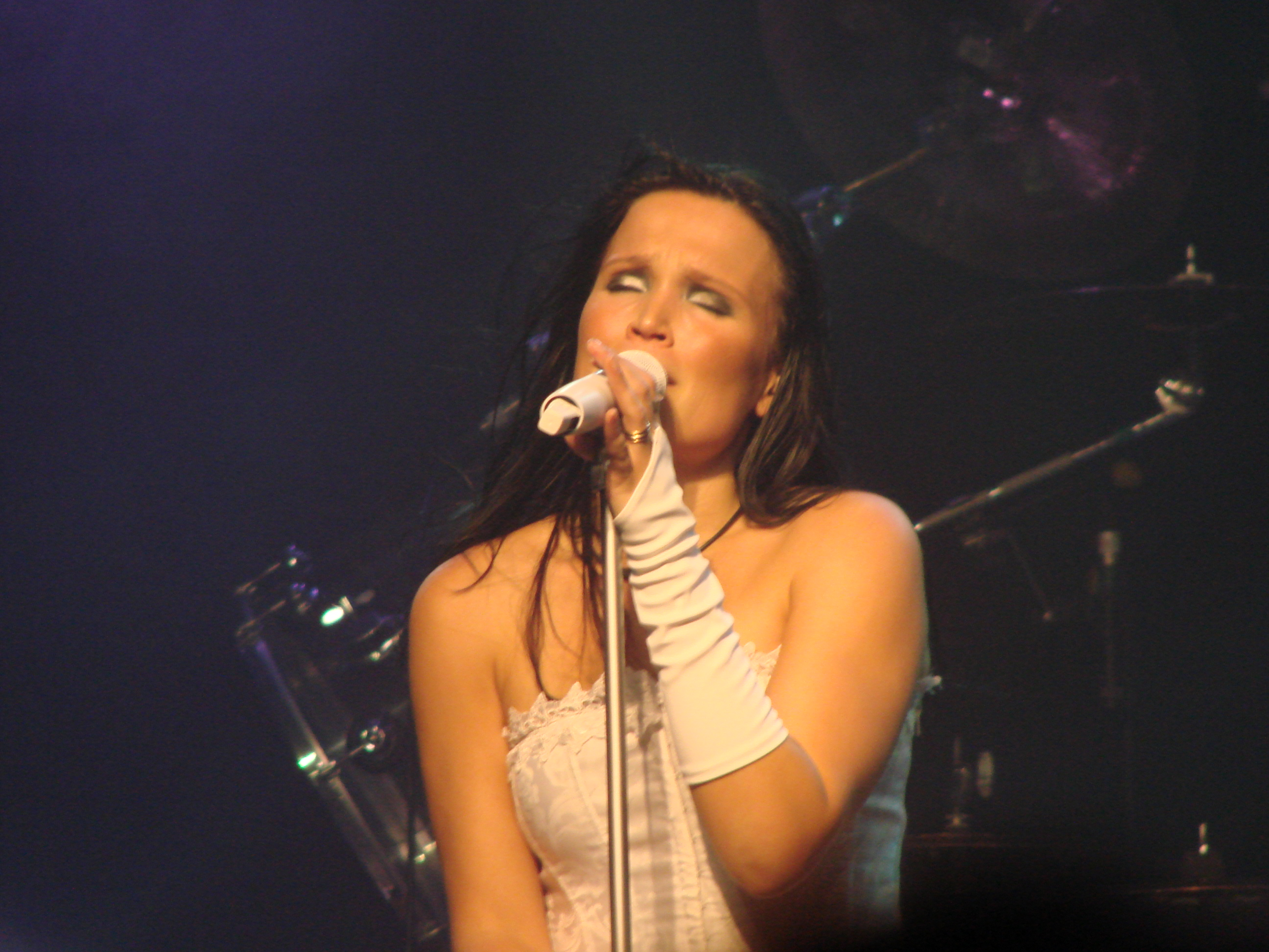 Tarja Turunen singing at the Obras Stadium in Buenos Aires, Argentina, on September 6, 2008. This was the last show of the Winter Storm tour on America.